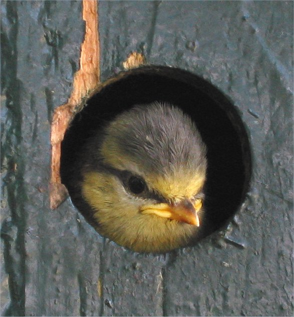 young bird